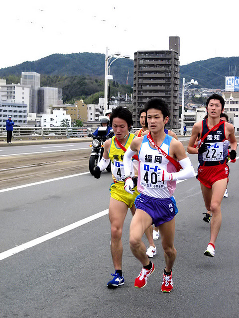 The All-Japan Interprefectural Ekiden Championships 7th Leg, the runners of Miyagi and Fukuoka and Aichi Pref.